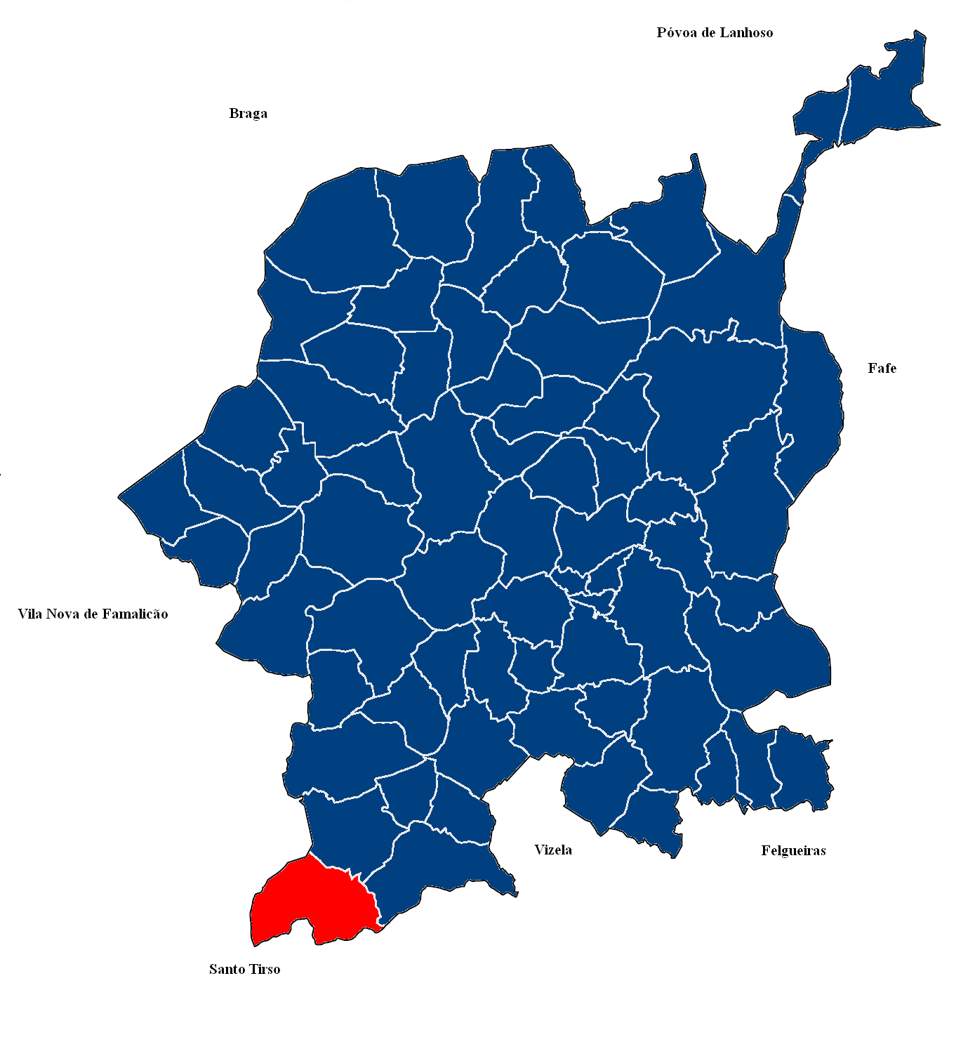 Map of Lordelo parish, Guimarães Municipality, Portugal